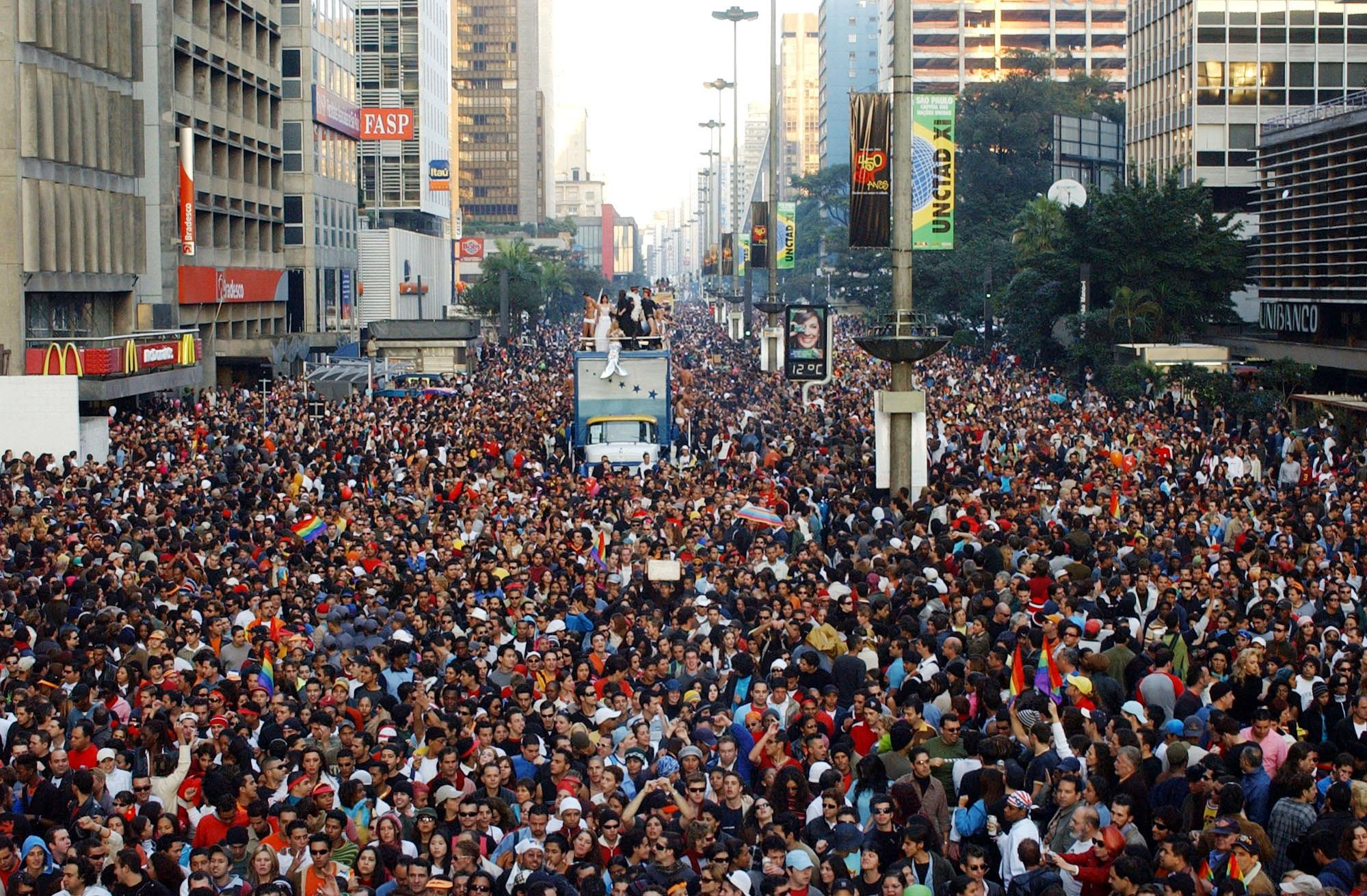 VIII Gay Pride in São Paulo, Brazil